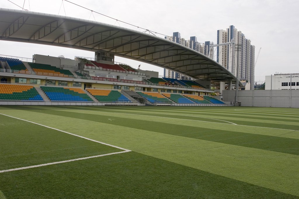 The view of Jalan Besar stadium, the home stadium for the Singapore national youth football team from the unsheltered stands.